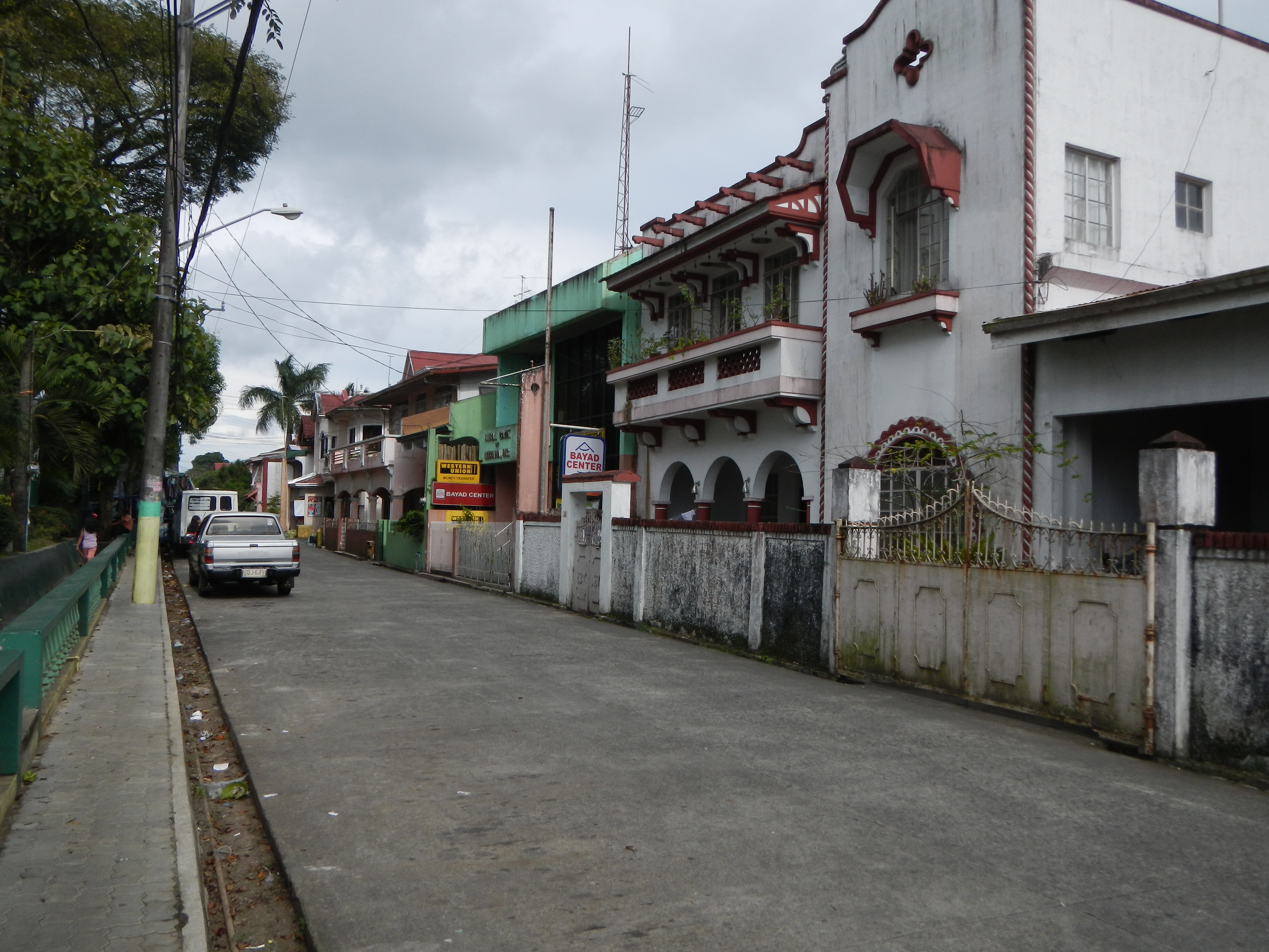 UploadWizard photos -- (General description, 3-dimension angle by angle photography of this town, church & landmarks) -- of Luisiana, Laguna [1] - (the -- Town hall, the center of the town, the Catholic Church, the monument of Don Luis Bernardo (town’s founder), a monument of Dr. Jose P. Rizal. the “guard dogs” at the stairs in front of the municipal building, the WWII Veterans and Hukbalahap Memorial, Statue and Monument, beside the Children's Park, Plaza, Liwasang Luisina, Stage, Grandstand and Bandstand, Basketball court, 0f - Luisiana, Laguna [2] (a fourth class municipality in the province of Laguna, [3] Philippines; latest census, it has a population of 20,148 people in 4,685 households; occupies 6,379 hectares (15,760 acres) on a plateau 1,400 feet (430 m) atop the Sierra Madre mountains.[4] [5] [6] Coordinates: 14°9'40"N 121°33'9"E [7] [8] founded in 1825, by Don Luis Bernardo).